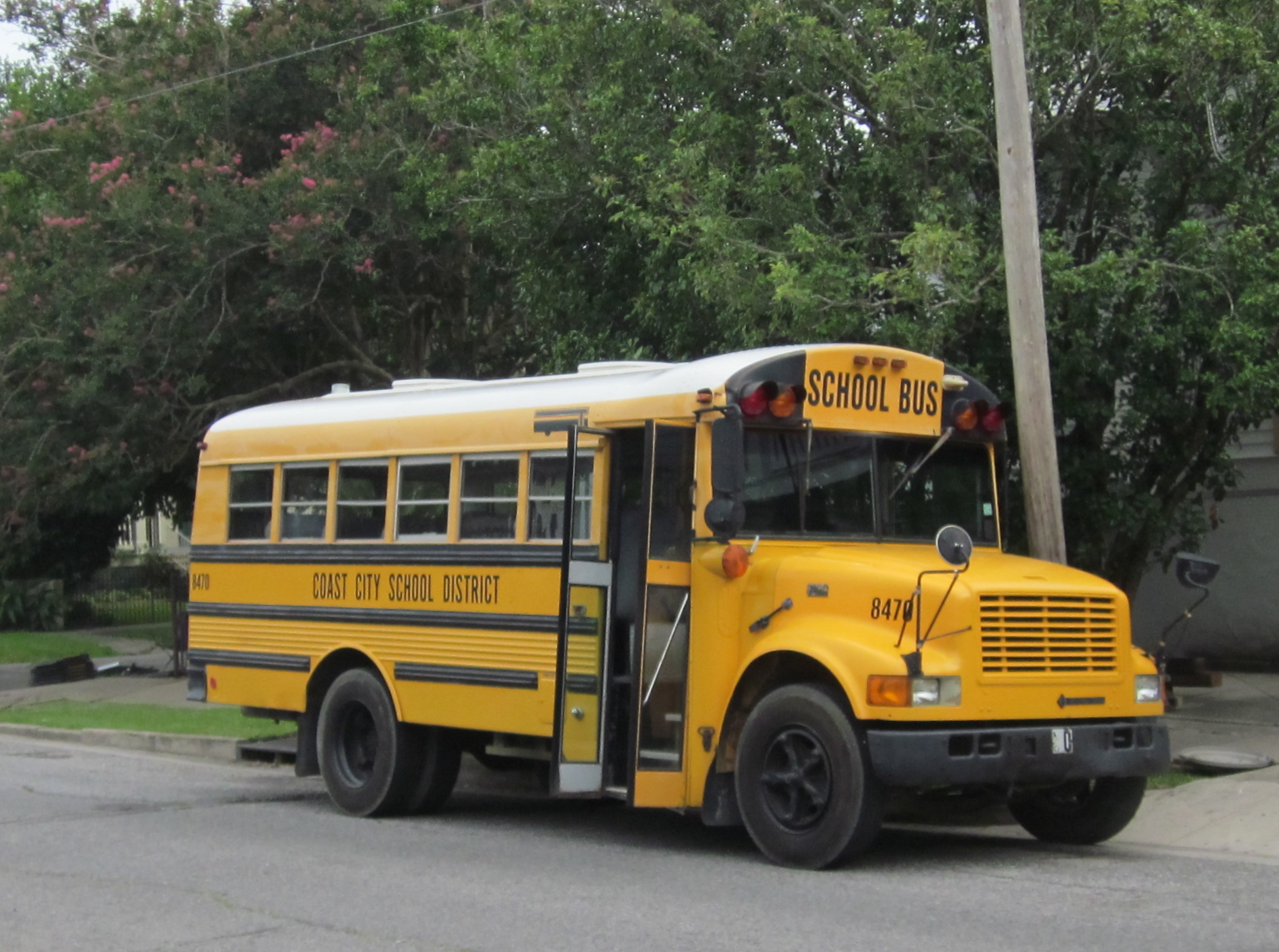 School bus marked "Coast City School District", used in shoot for "Green Lantern" movie. Maple Street, Carrollton section of New Orleans.